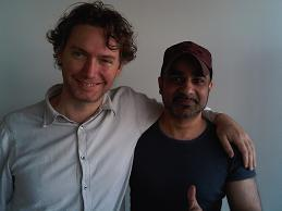 english